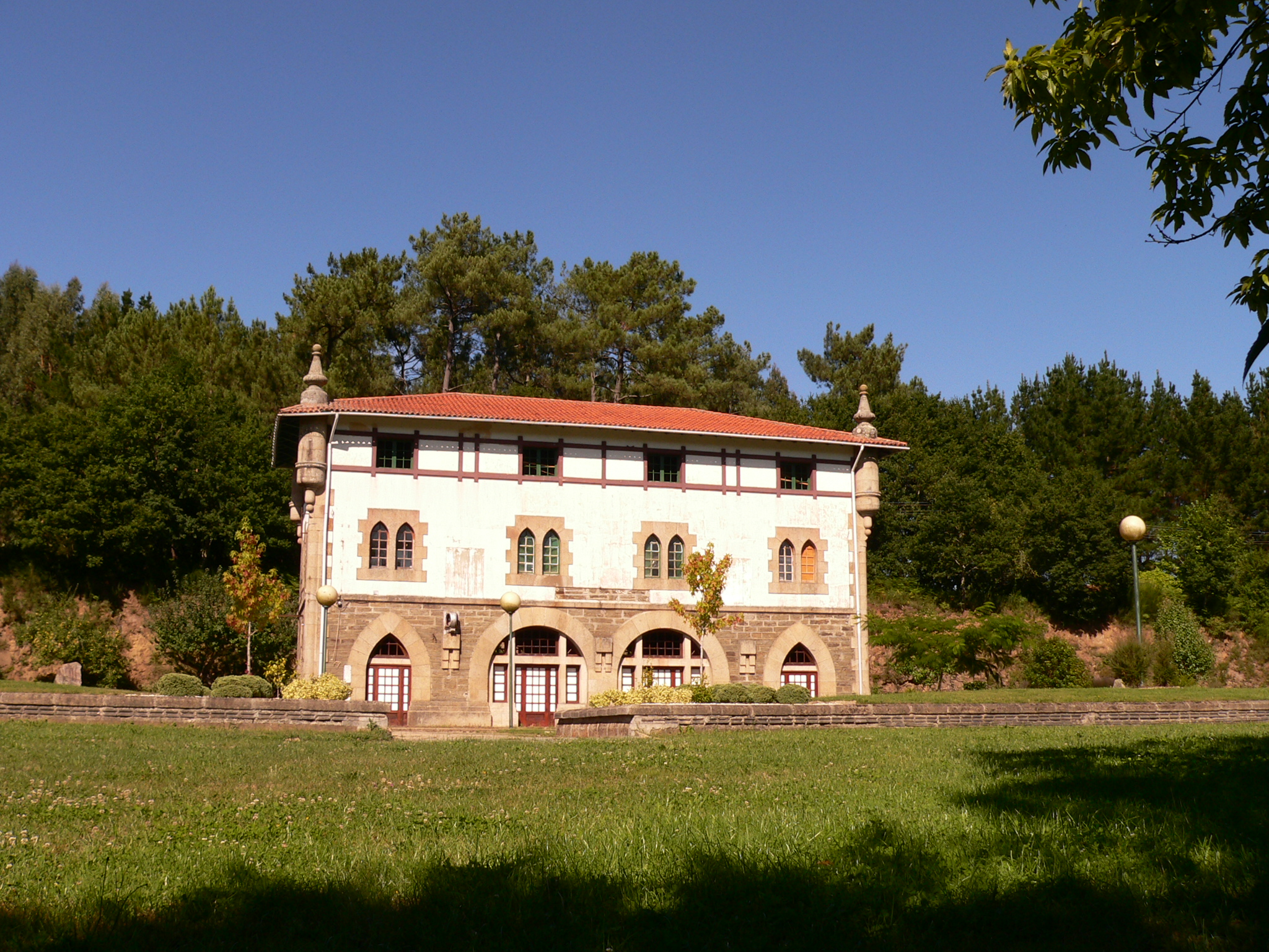 Former train station in Parada, Ordes, A Coruña, Galicia, Spain.